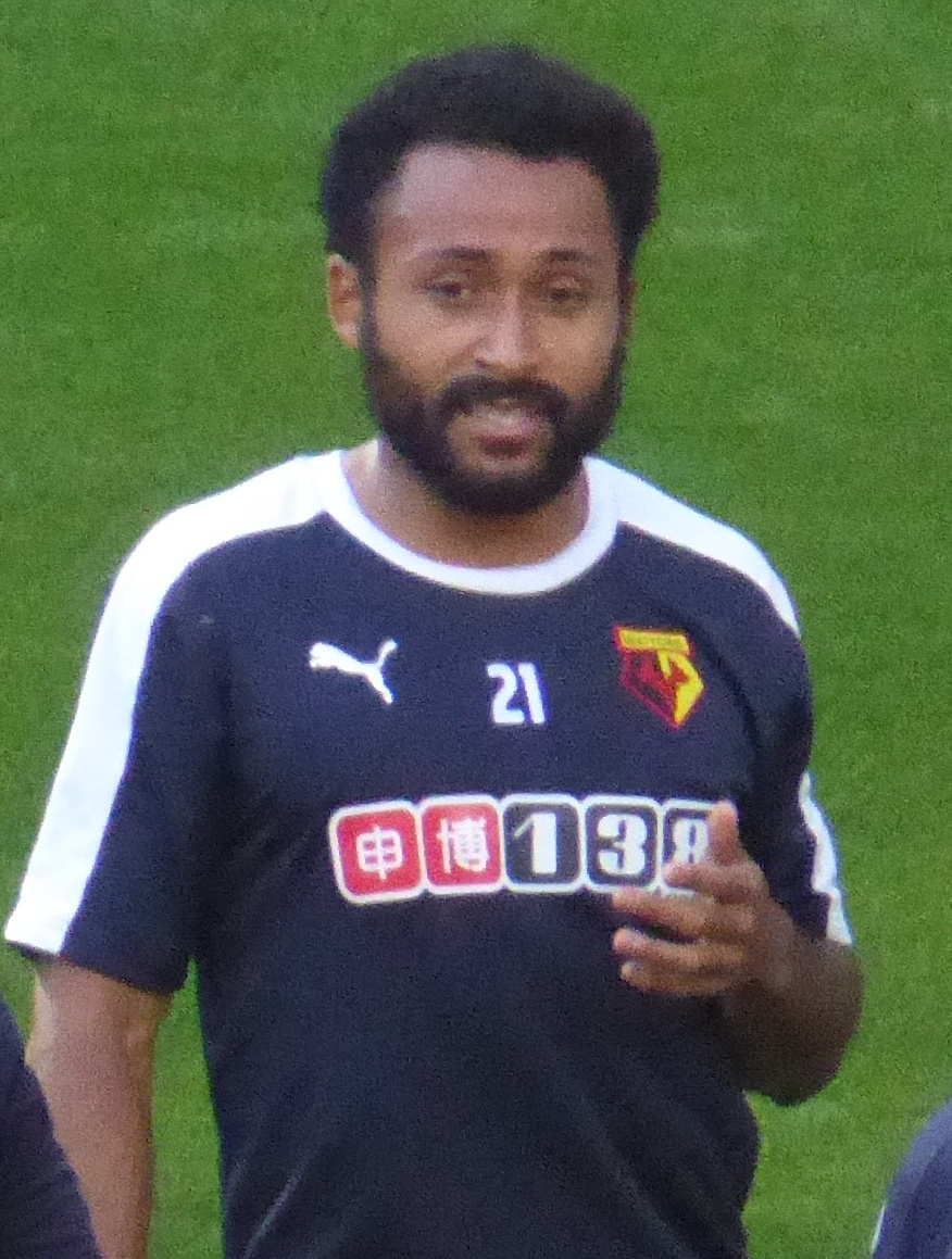 Newcastle United vs Watford (1-2), Barclays Premier League, St James' Park, Newcastle upon Tyne, Tyne and Wear, England, September 2015